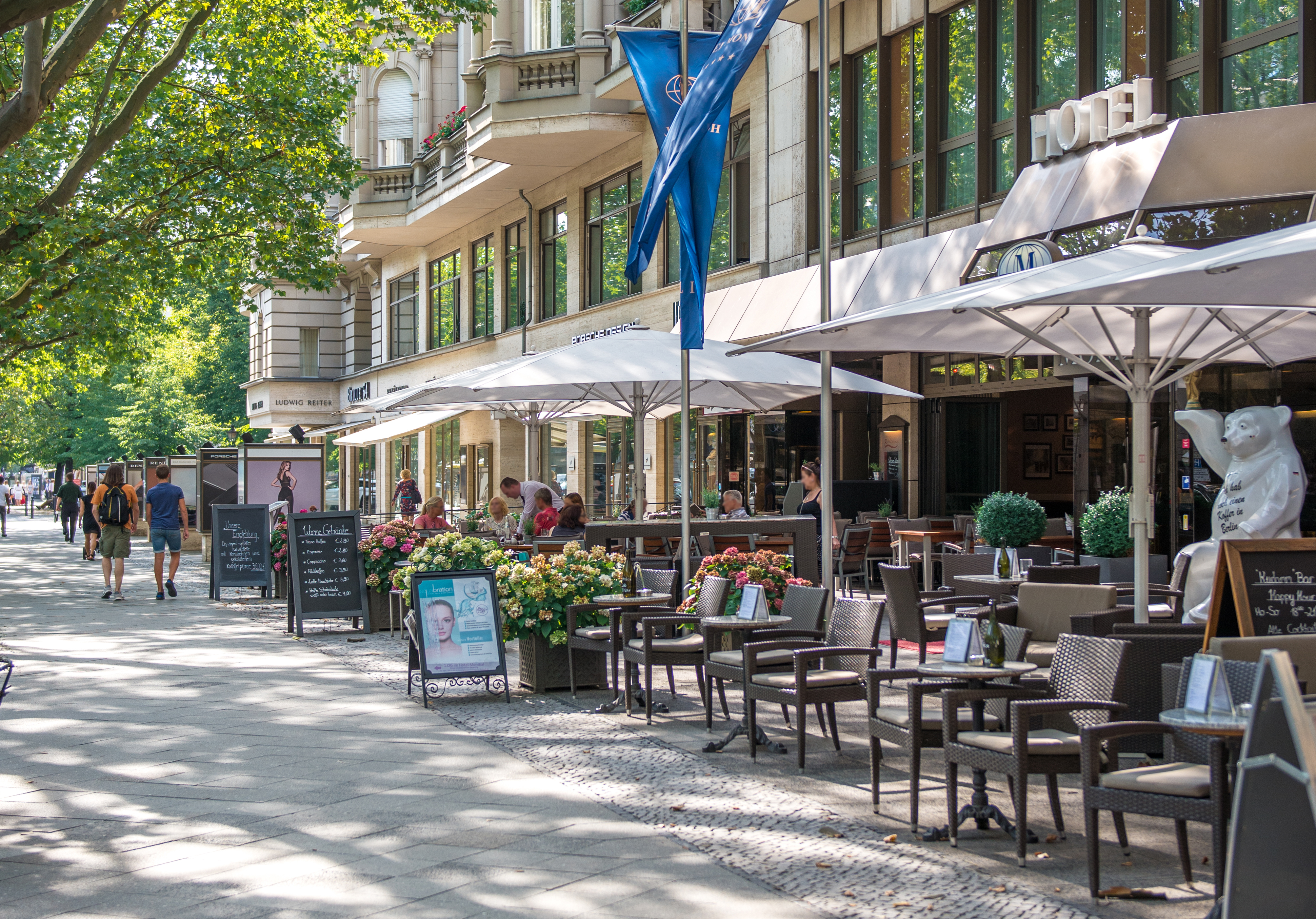 Pavement café and glass display cabinets on Kurfürstendamm